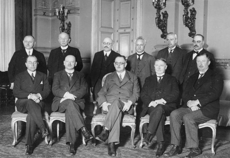 Information added by Wikimedia users.Kabinett Hermann Müller II 28. Juni 1928 – 27. März 1930